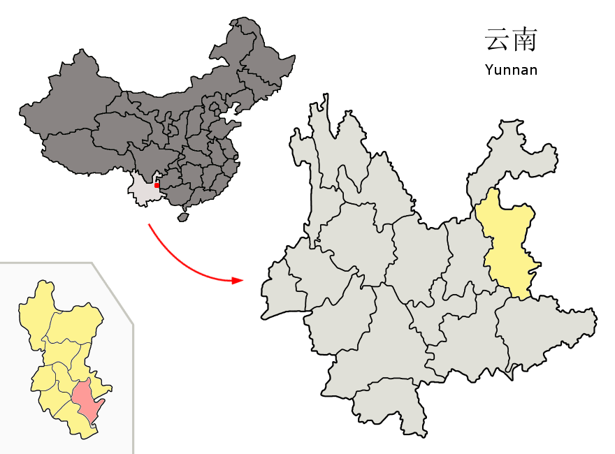 Location of Luoping County (pink) and Qujing Prefecture (yellow) within Yunnan province of China Map drawn in september 2007 using various sources, mainly : Yunnan province administrative regions GIS data: 1:1M, County level, 1990 Yunnan Counties map from